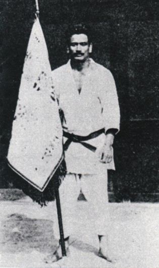 tatsukuma usijima